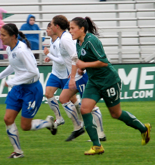 Madelaine Edlund of the (WPS) Womens Professional Soccer Club, St.Louis Athletica.